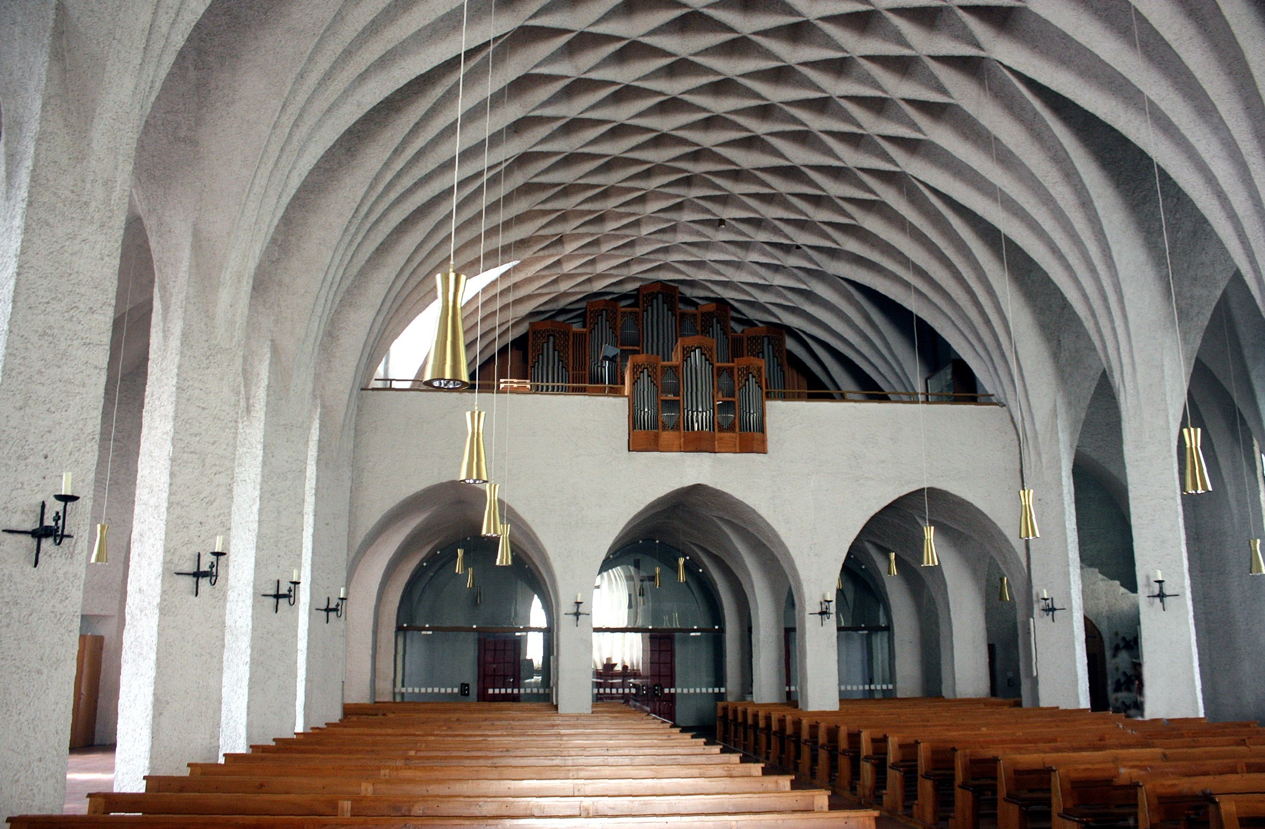 Neu-Ulm, St. John Baptist, inner view